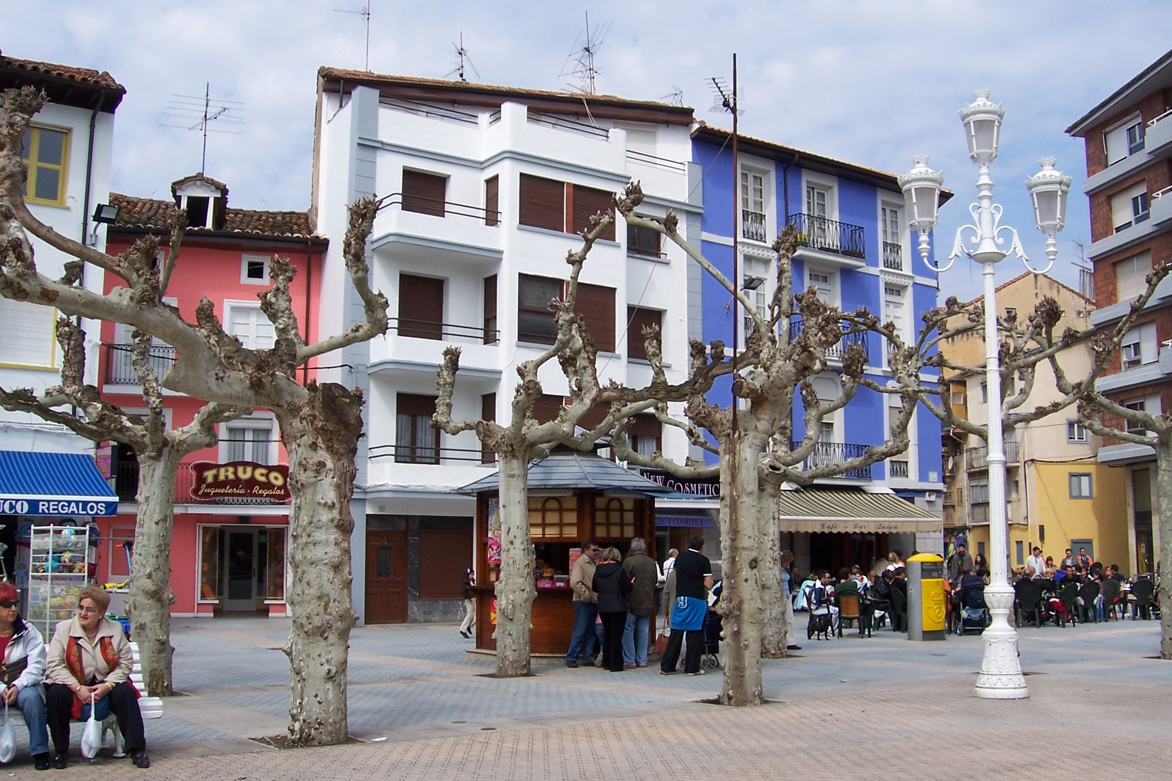 Santoña Cantabria (Spain). West side of the Plaza de San Antonio, this was the last expanded part at the end of the 20th century.